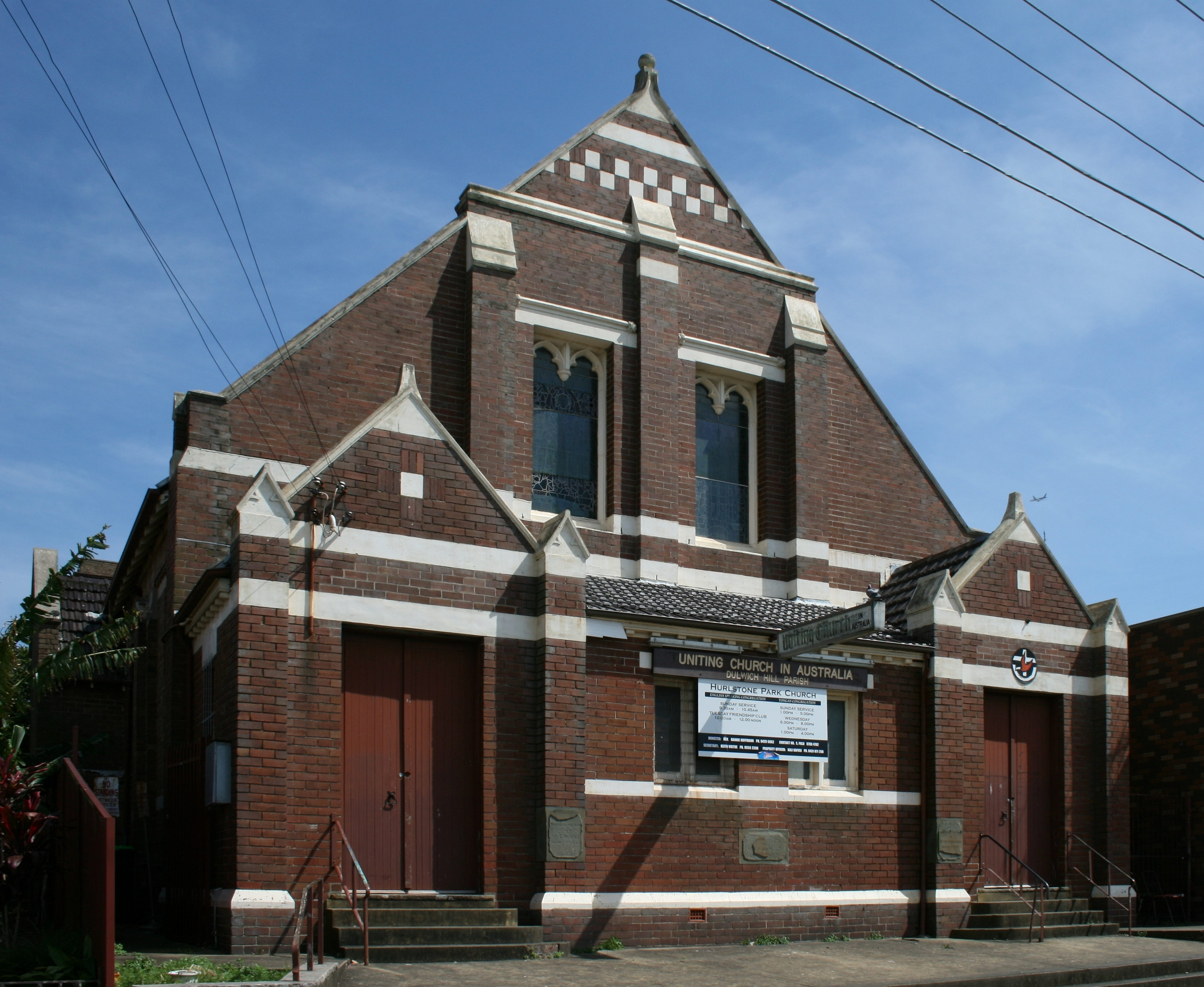 Hurlstone Park Uniting Church, part of the Dulwich Hill parish. Located in Hurlstone Park, New South Wales (NSW), Australia.